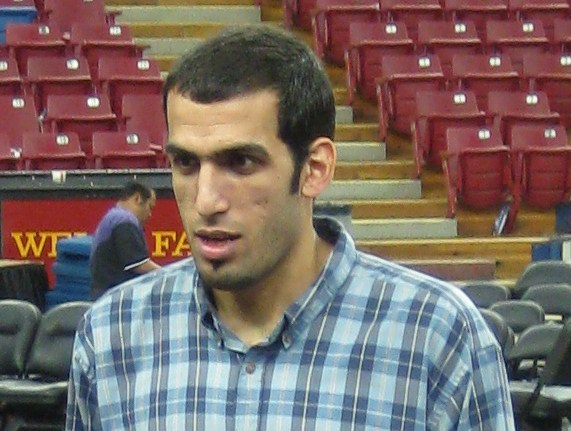 Hamed Haddadi of the Memphis Grizzlies talks with fans before a game.